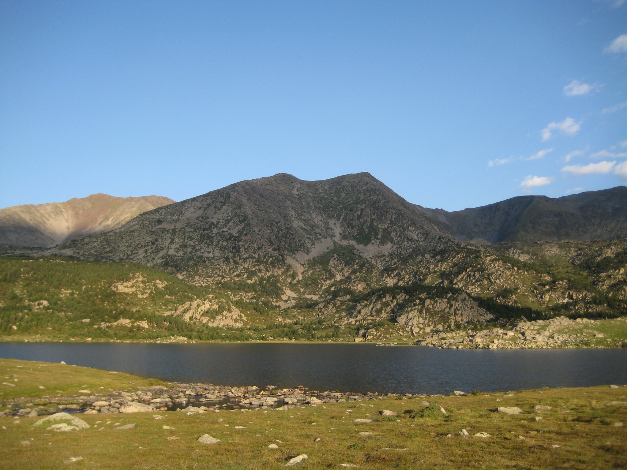 The Llat pond, one of the Carlit ponds